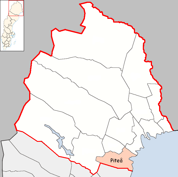 Piteå Municipality in Norrbotten County Designed by me. Mere outlines are a PD source from